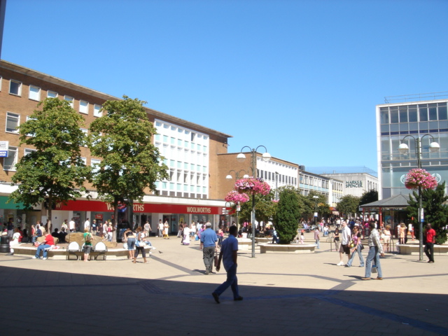 View of Queen's Square, Crawley, looking towards the bandstand, Woolworth's , M&S and Body Shop (the former Tesco building). Photographed on 4th August 2007.